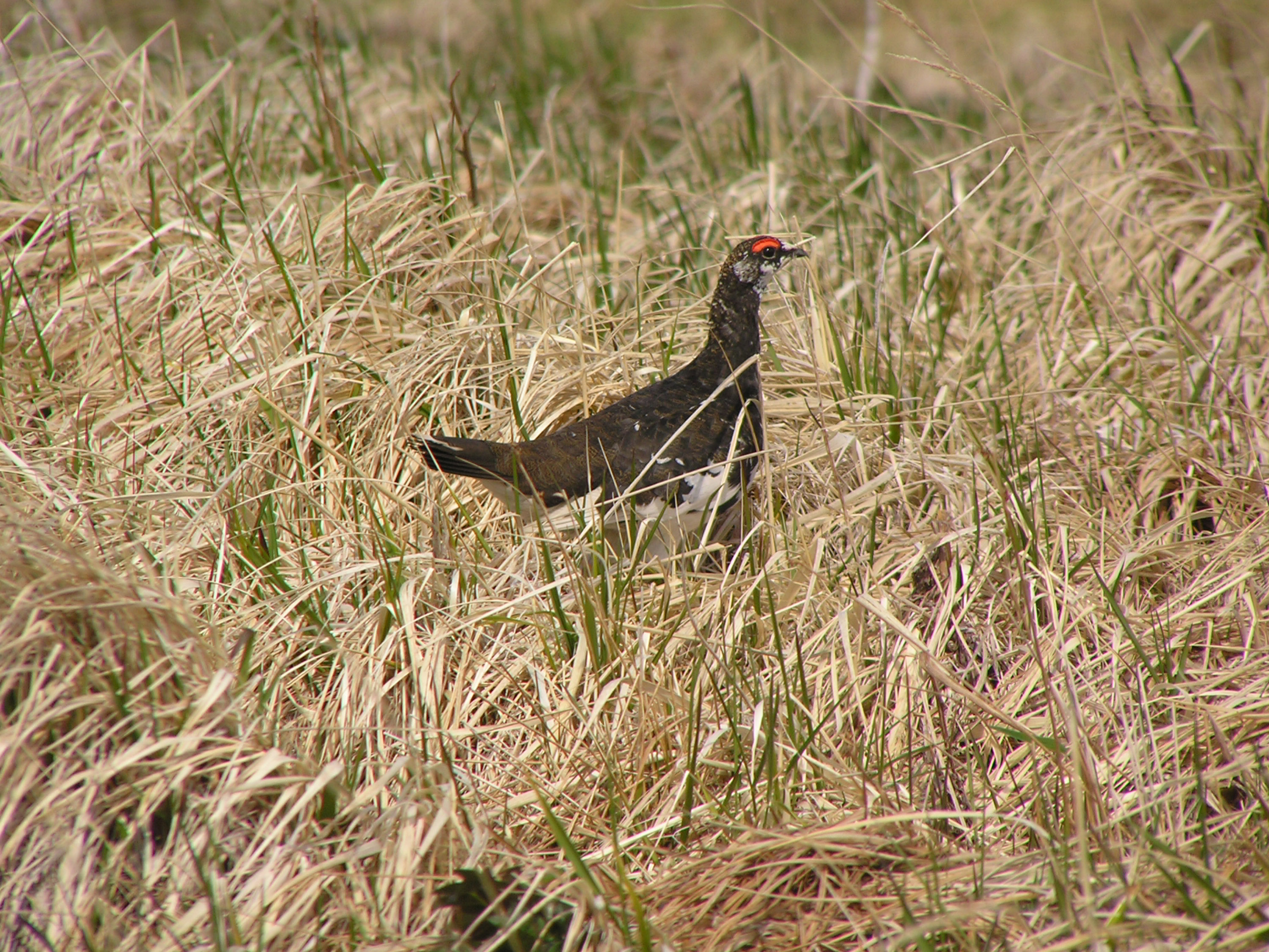 Male Evermann's Rock Ptarmigan (Lagopus mutus evermanni), Attu island, Alaska Maritime National Wildlife Refuge